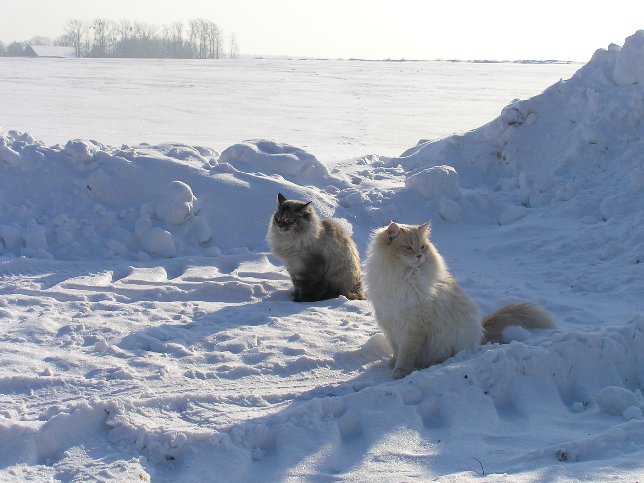 Neva Masquarade cats in snow owned by Cattery vom Hohen Timp, Germany